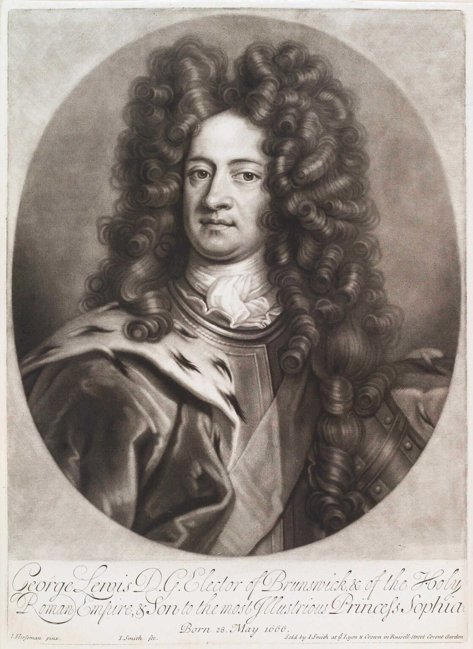 Portrait of George I of Great Britain (1660–1727, r. 1714–1727) while Elector of Hanover (1698–1727)